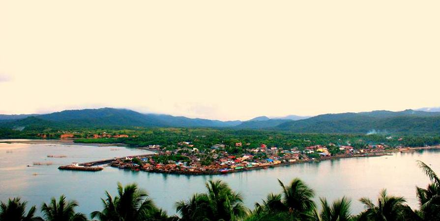 Aerial view of the Magallanes Shoreline